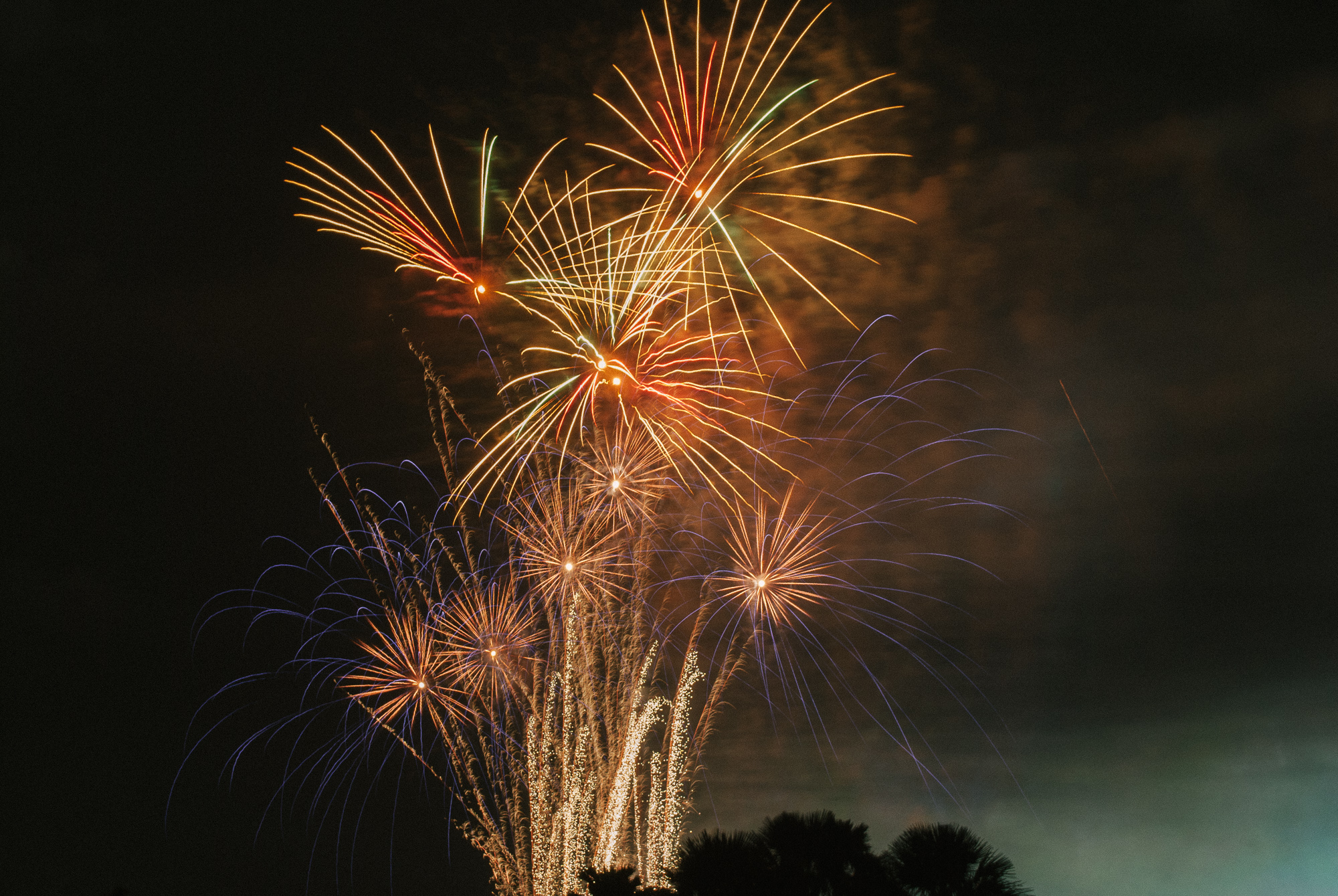 A pyromusical show lit the skies about Davao del Norte Sports and Tourism Complex during the Opening Ceremony of the Palarong Pambansa 2015 in Tagum City, Davao del Norte.